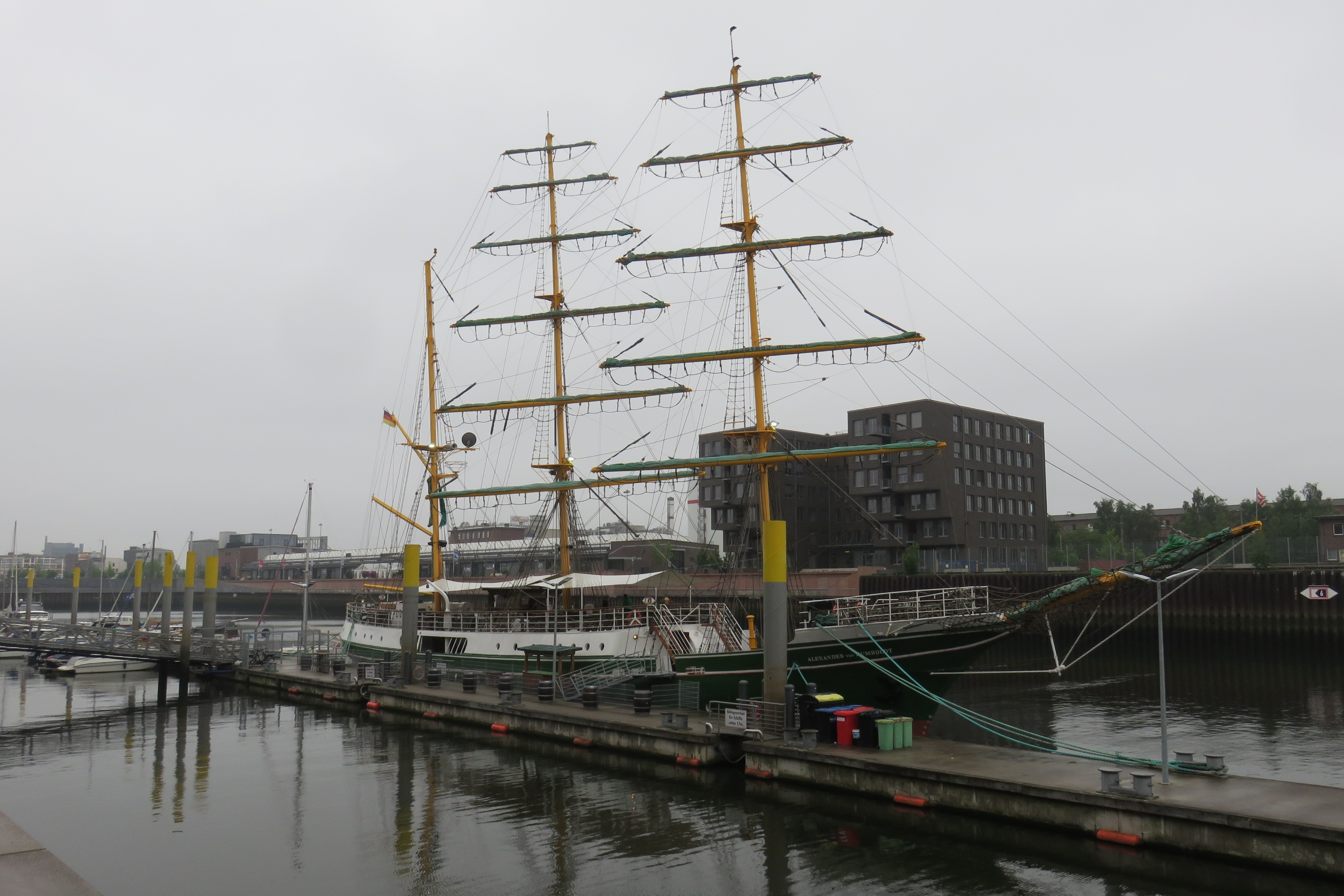 Alexander von Humboldt was moored at Marina Europahafen from April 2015 until October 2016